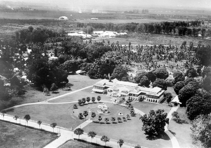 Air photo of the Istana Maimun, the Sultan of Deli's palace